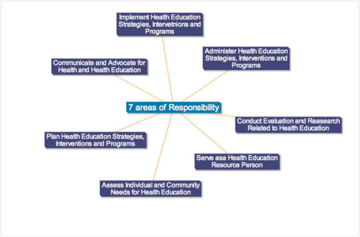 This is a concept map created to show the 7 areas of Health Education. This work was created using Text2mindmap a free web program.